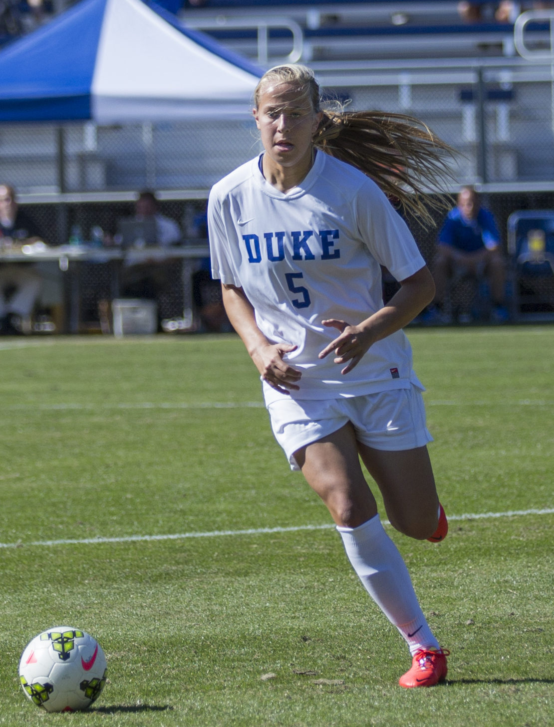 Duke Women's Soccer vs. Boston College - 2014 Senior Night